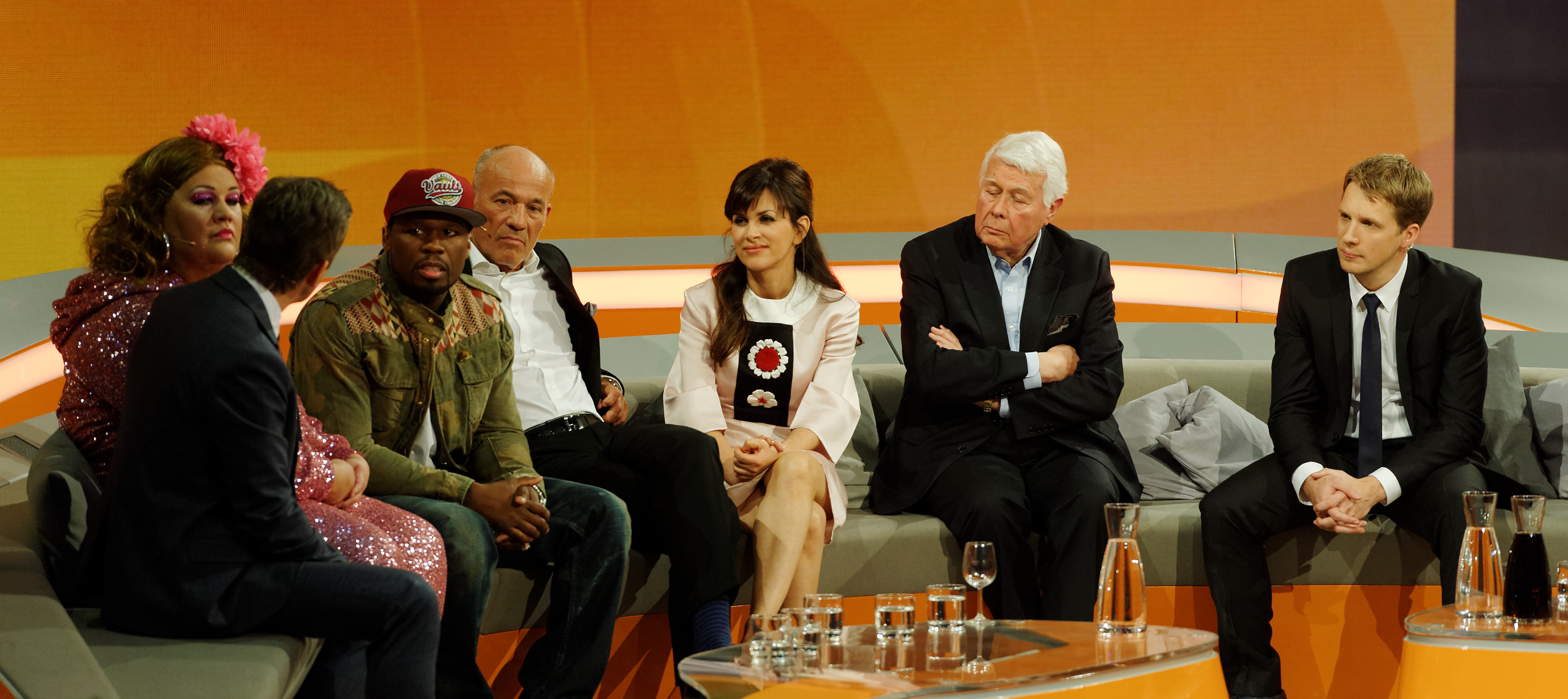 Wetten, dass.. ? am 23. März 2013 in der Stadthalle Wien The making of this work was supported by Wikimedia Austria. For other files made with the support of Wikimedia Austria, please see the category Supported by Wikimedia Österreich. v.l. Markus Lanz, Cindy aus Marzahn, 50 cent, Heiner Lauterbach, Viktoria Lauterbach, Peter Weck, Oliver Pocher